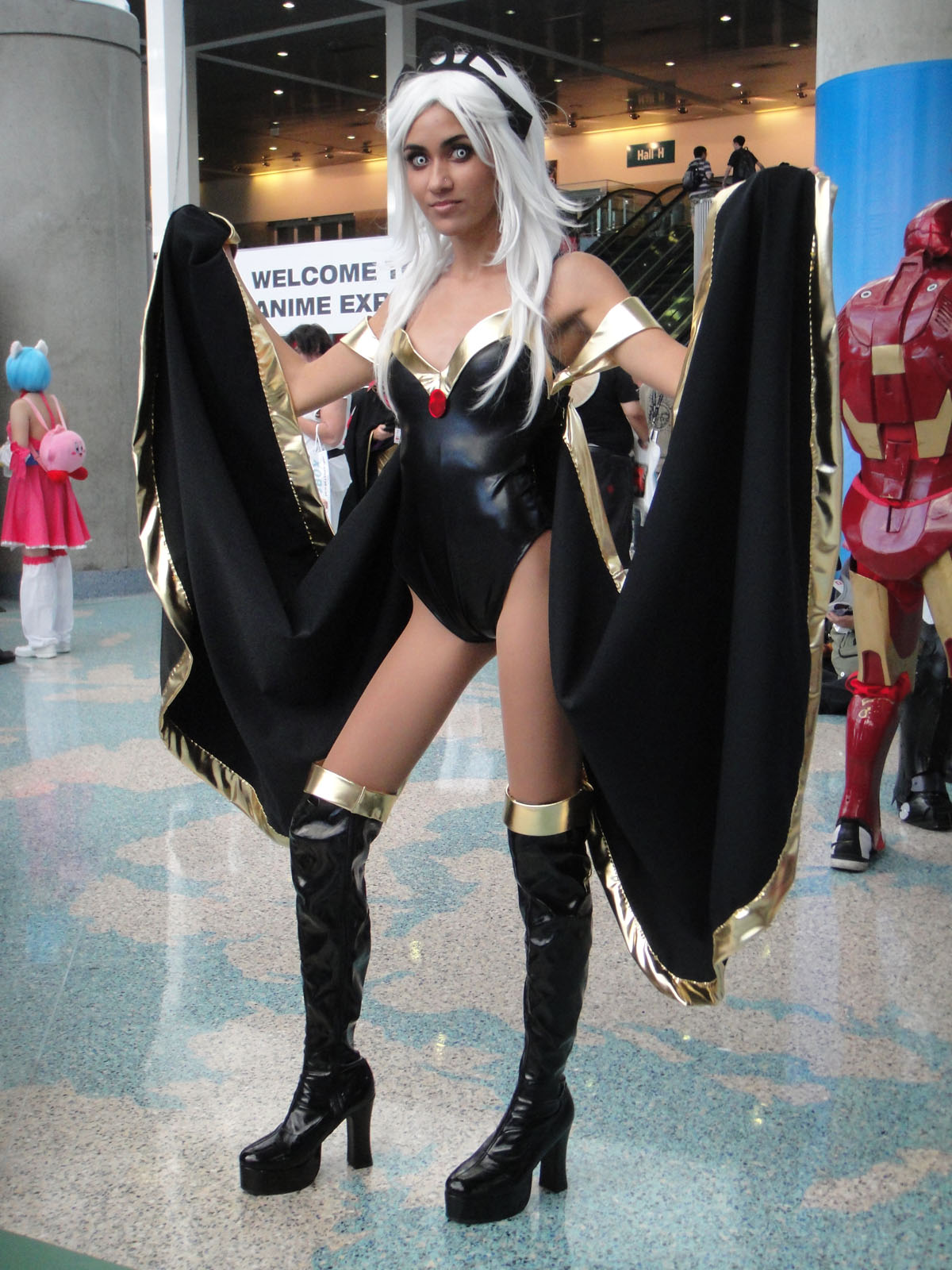 Cosplay of Storm of the X-Men at Anime Expo 2011